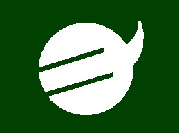 Flag of Kawanishi Nara